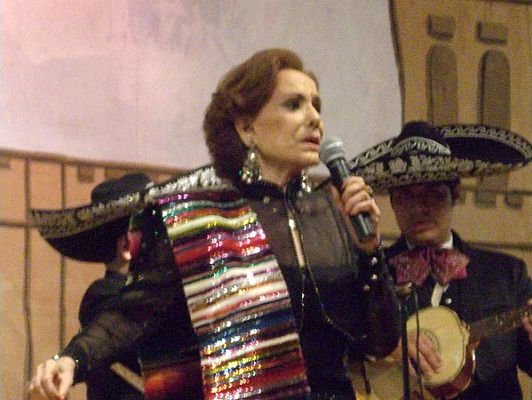 Rosita Quintana Concert on September 16, 2007 in New York City giving great success as always with the cry of Viva Mexico !!